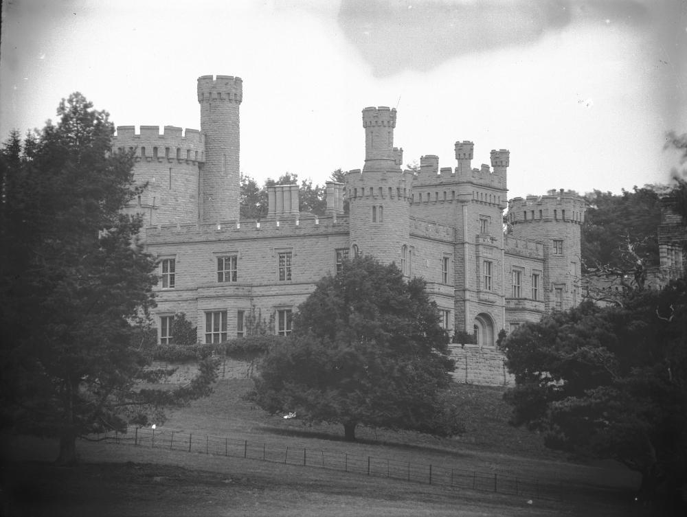 Abstract: Maesllwch Castle, Glasbury